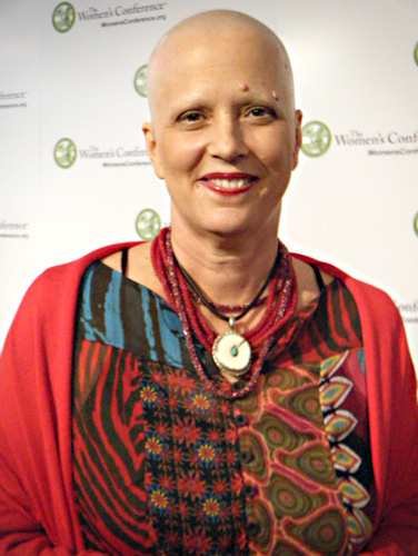 Eve Ensler